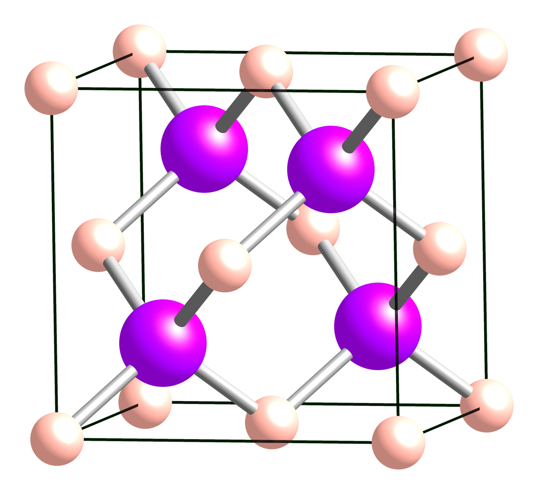 Ball-and-stick model of the unit cell of boron arsenide, BAs, which adopts the sphalerite (zinc blende, β-ZnS) structure. X-ray crystallographic data from R. W. G. Wyckoff (1963) Crystal Structures 1 (2nd ed.), New York City: Interscience, pp. 85-237 CIF acquired from The American Mineralogist Crystal Structure Database Model constructed and image generated with CrystalMaker 8.1.